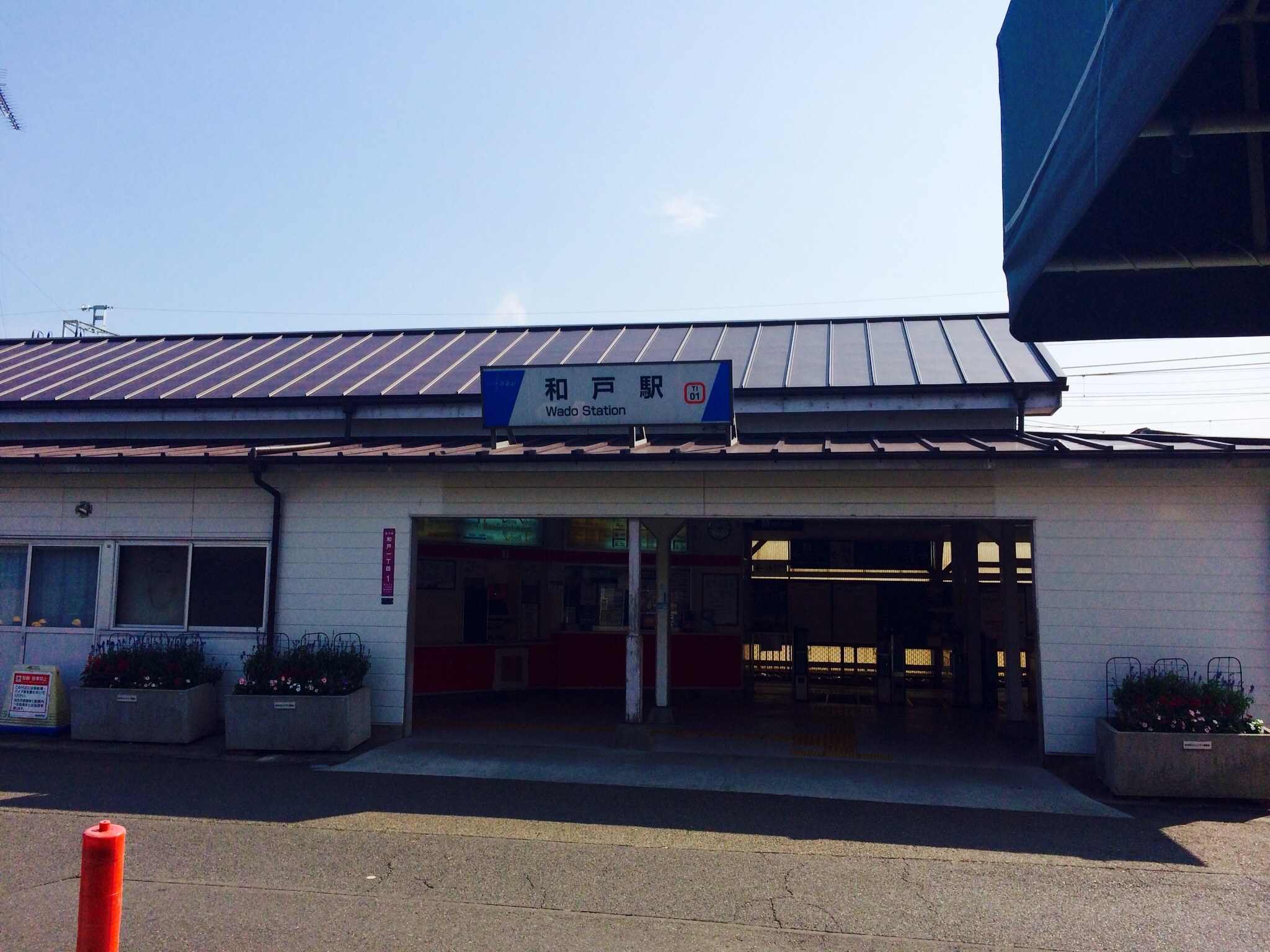 Wado Station on the Tobu Isesaki Line in Saitama Prefecture, Japan